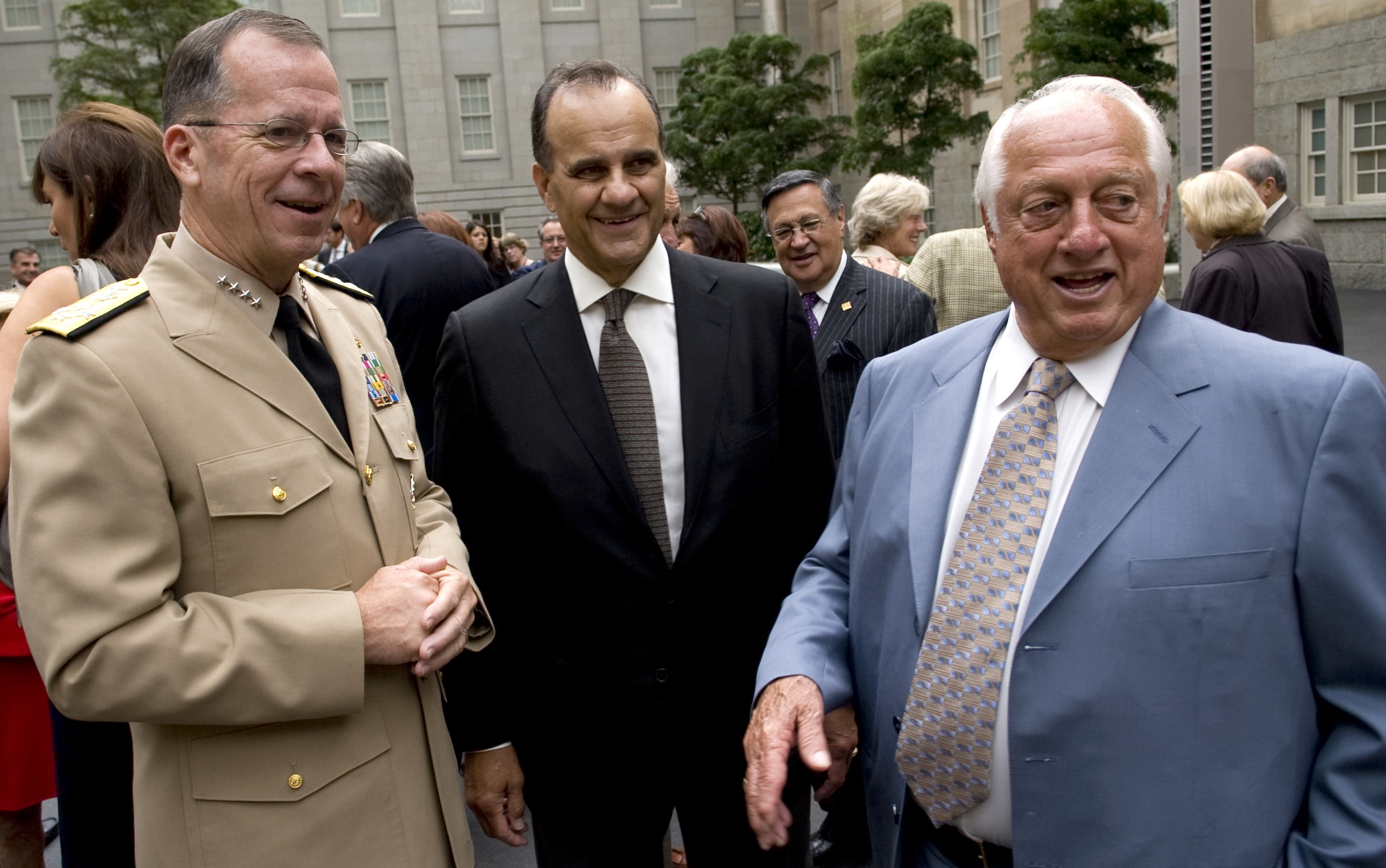 09/22/2009 - From left, Chairman of the Joint Chiefs of Staff Navy Adm. Mike Mullen, Joe Torre, the manager of the Los Angeles Dodgers baseball team, and Tommy Lasorda, a Baseball Hall of Fame inductee and former Dodgers manager, attend an unveiling for Lasorda's portrait at the National Portrait Gallery in Washington, D.C., Sept. 22, 2009. (DoD photo by Mass Communication Specialist 1st Class Chad J. McNeeley, U.S. Navy/Released) VIRIN: 090922-N-0696M-116 This image has been rotated and cropped from the original